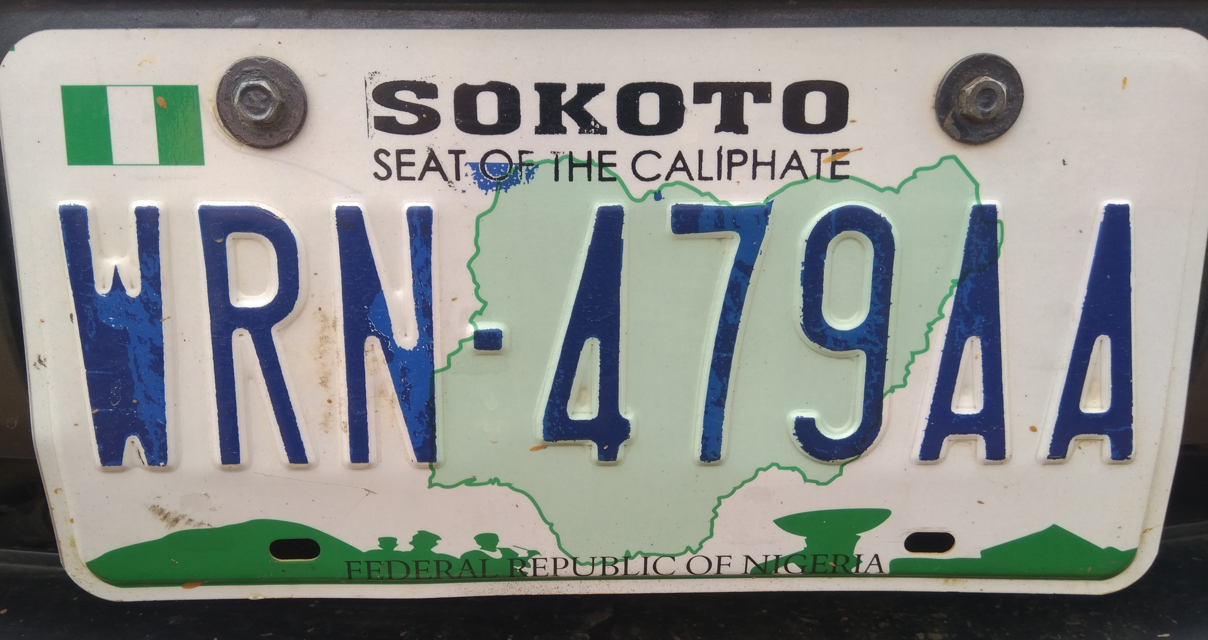 Nigerian number plate Sokoto State